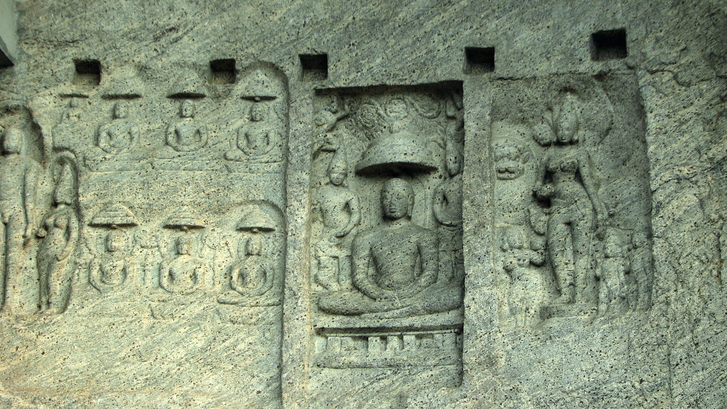 self-made photograph ; Author's Name : Infocaster